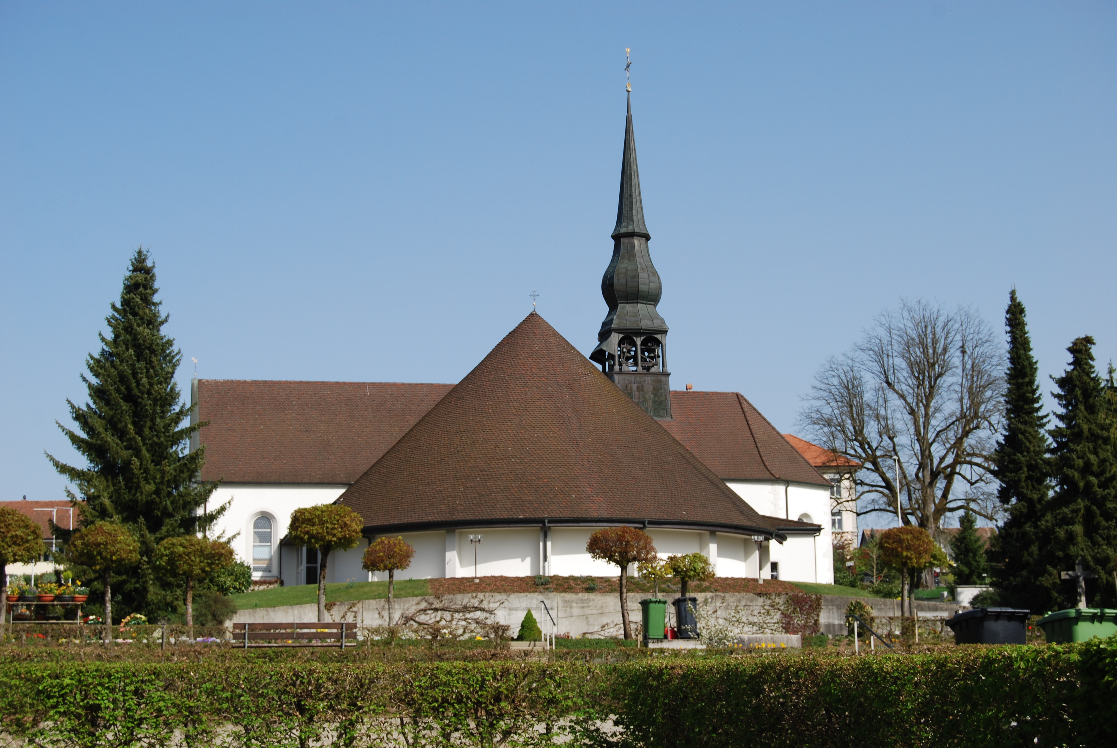 Church of Wolfwil, canton of Solothurn, SwitzerlandEsperanto: Preĝejo de Wolfwil, Kantono Soloturno, Svislando